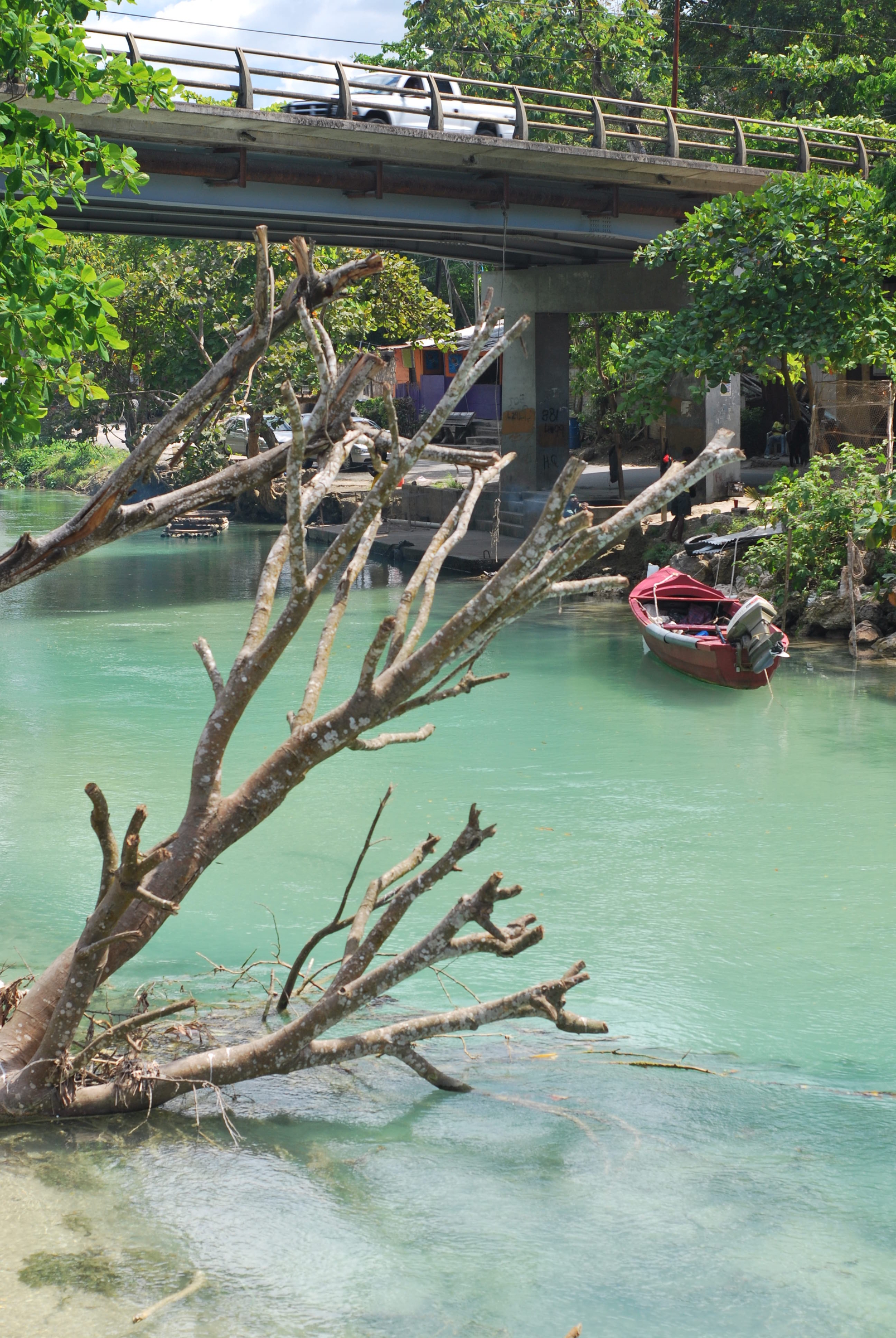 A picture of a typical fishermen house on the bank of the White River in Ocho Rios, St. Ann's Bay Parish, Jamaica.